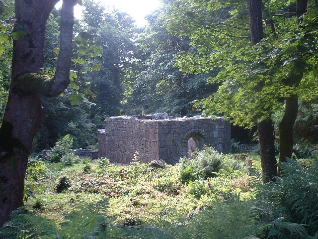 Chapel on Inchagoill, Lough Corrib. Teampull na Naomh - The church of the Saints, one of two ancient chapels on this island in Lough Corrib.